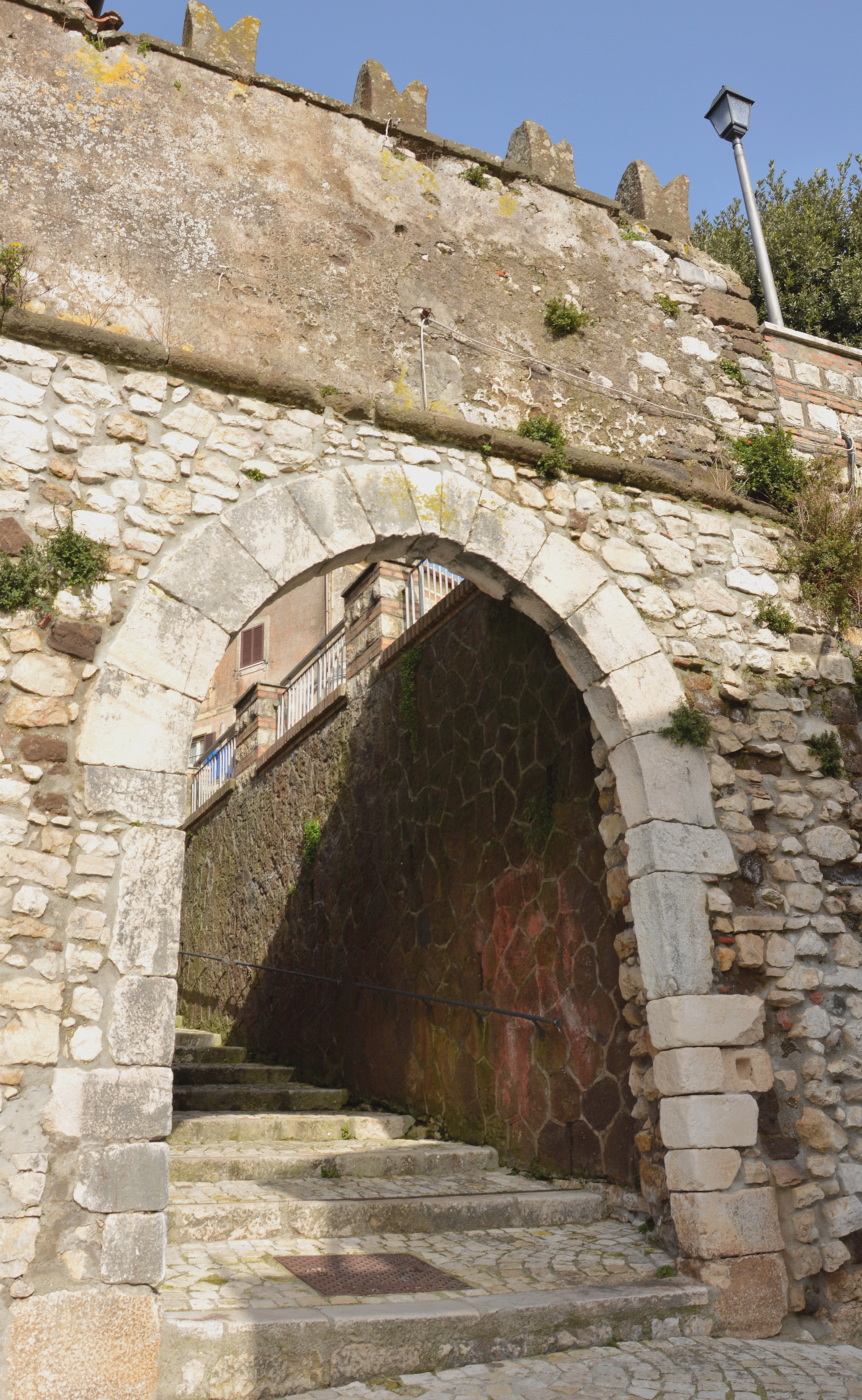 Gavignano (Rm)